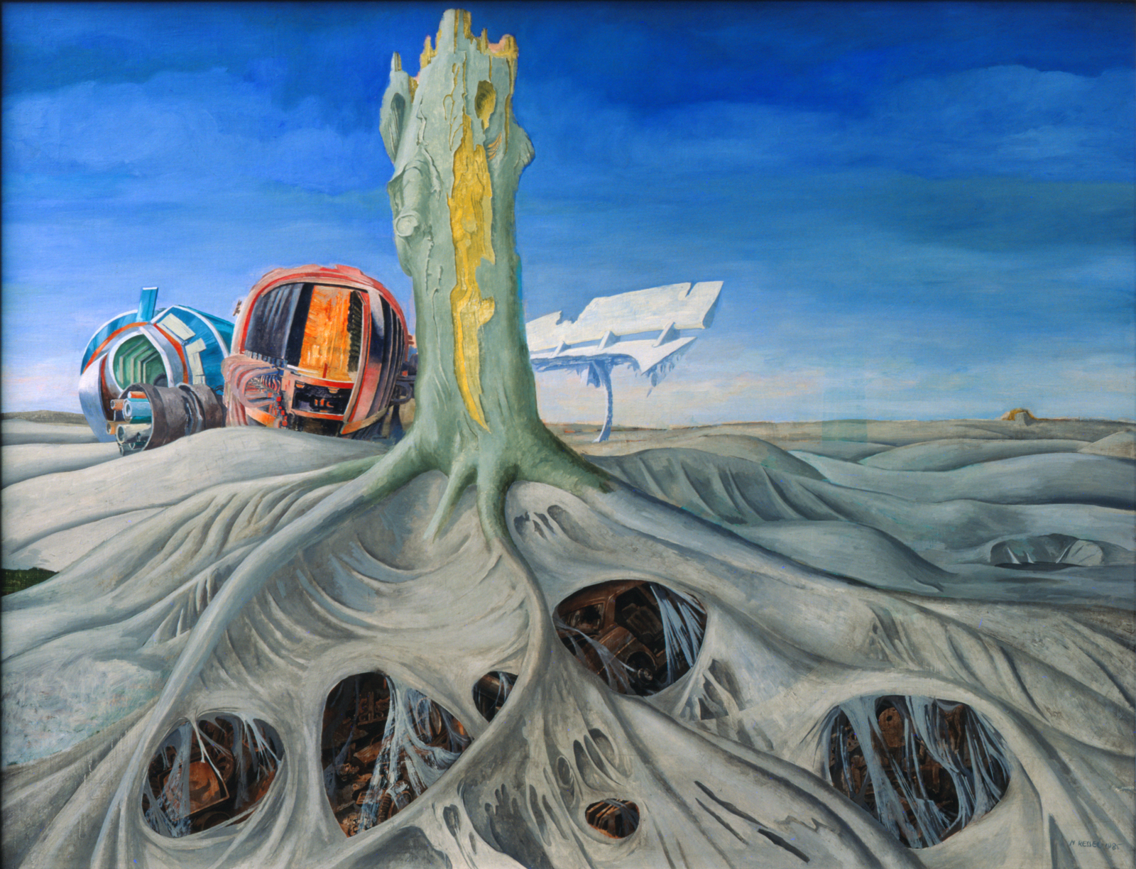 Milan Ressel, The Tree, oil 94x122 cm (1986)